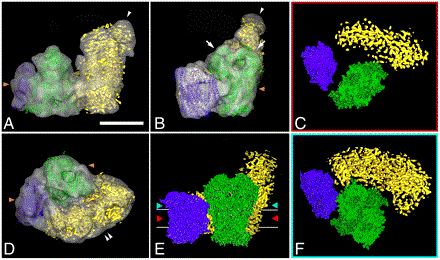 (A) side view; (B) side view from the membrane; (C) section through the space-filling model of respirasome on the level of membrane, demonstrating gaps between complexes within the supercomplex; (D) top view from the intermembrane space; (E) space-filling model of respirasome seen from the membrane; (F) section through the space-filling model of respirasome on the level of matrix. Horizontal lines on E indicate the position of the membrane.